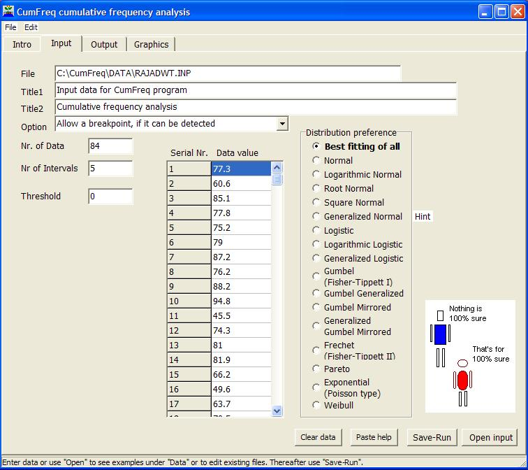 Screenshot of entirely free CumFreq software